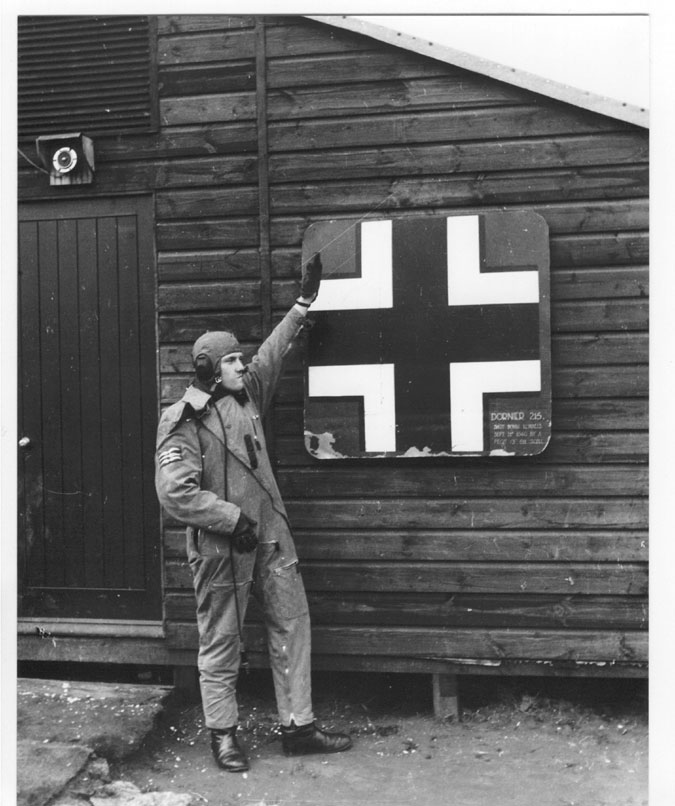 photograph of Barrie Heath, of 611 Squadron, with a piece of a downed German aircraft